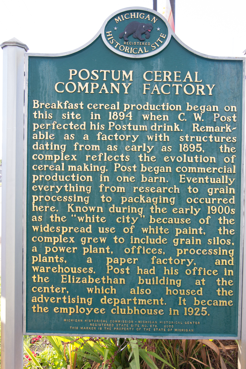 100px